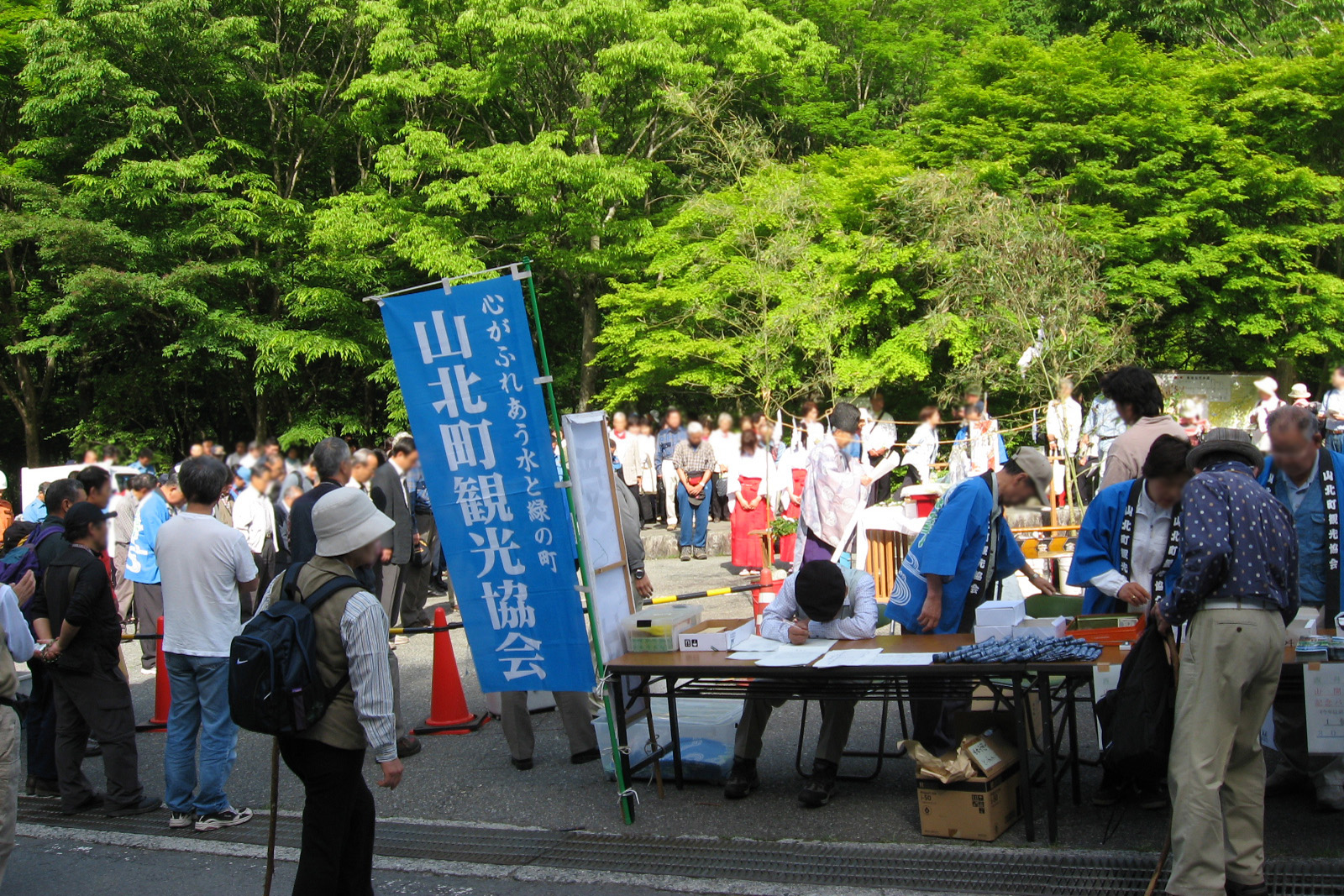 Nishitanzawa Yamabiraki(西丹沢山開き, lit. Start of the West-Tanzawa mountain-climbing season festival) at Yamakita Town, Kanagawa Pref., Japan.